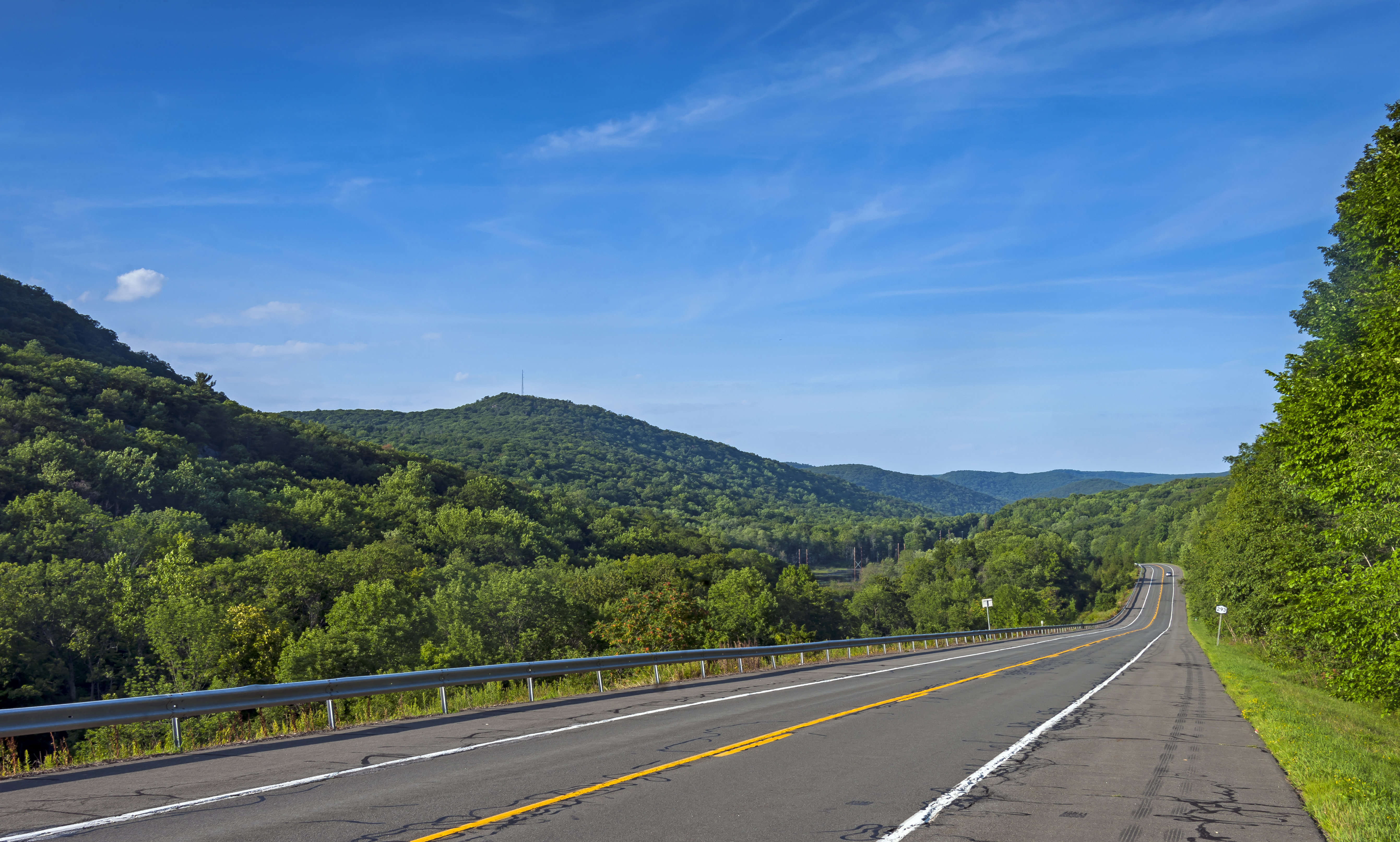 View looking northwest along NY 293 in the town/village of Woodbury, NY, USA. Most of the land off the road, at the headwaters of Popolopen Creek, is part of the West Point Military Reservation.